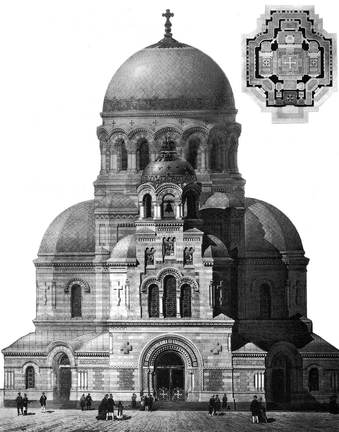 Draft of Savior on the Blood by Antony Tomishko. First prize of 1882 contest